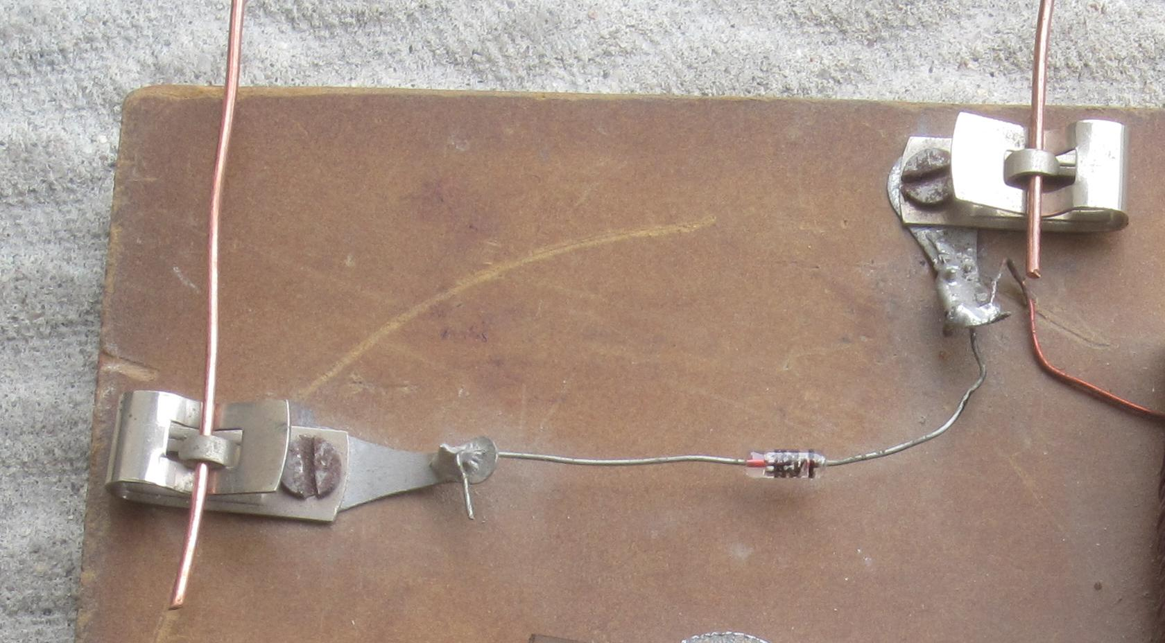 Fahnestock clips on a home-made crystal radio. Clips are used for connection to antenna, ground, and headset. "Bread-board" construction, literally screwing components onto a cutting board or similar small piece of flat wood, was a traditional construction technique in the early days of radio. A modern crystal diode is mounted between the clips.